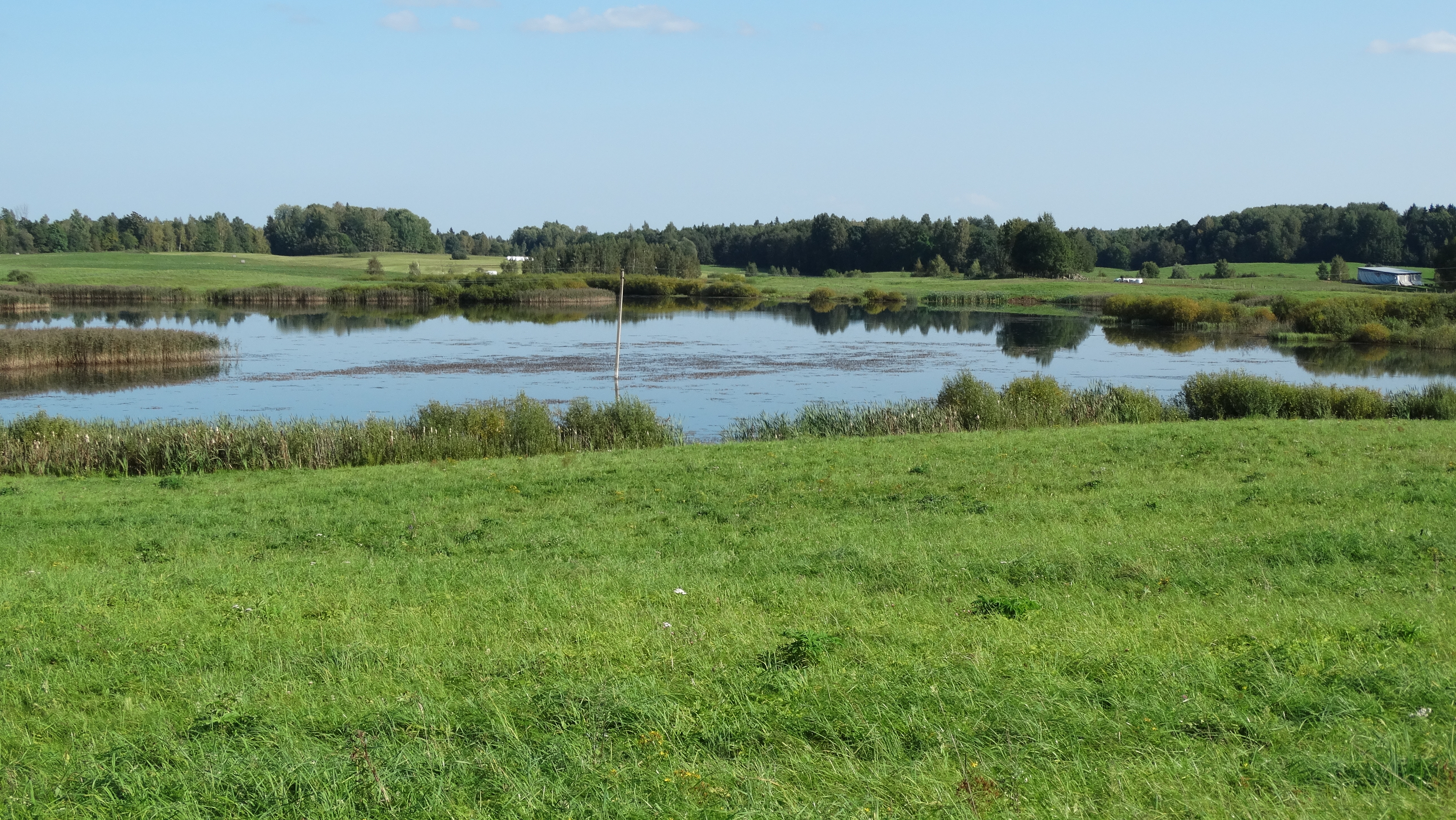 Lake (nameless) in Milgedžiai, Zarasai District, Lithuania